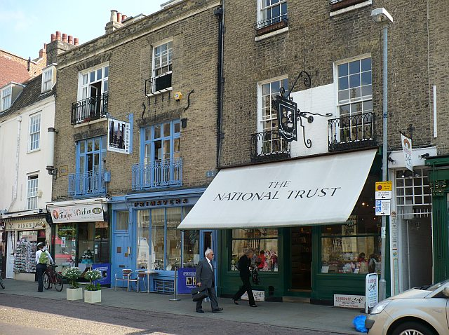 Shops on King's Parade